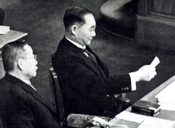 Japanese Prime Minister Mitsumasa Yonai (1880–1948, in office January–July 1940) reads memo at the prime minister’s seat in the House chamber.